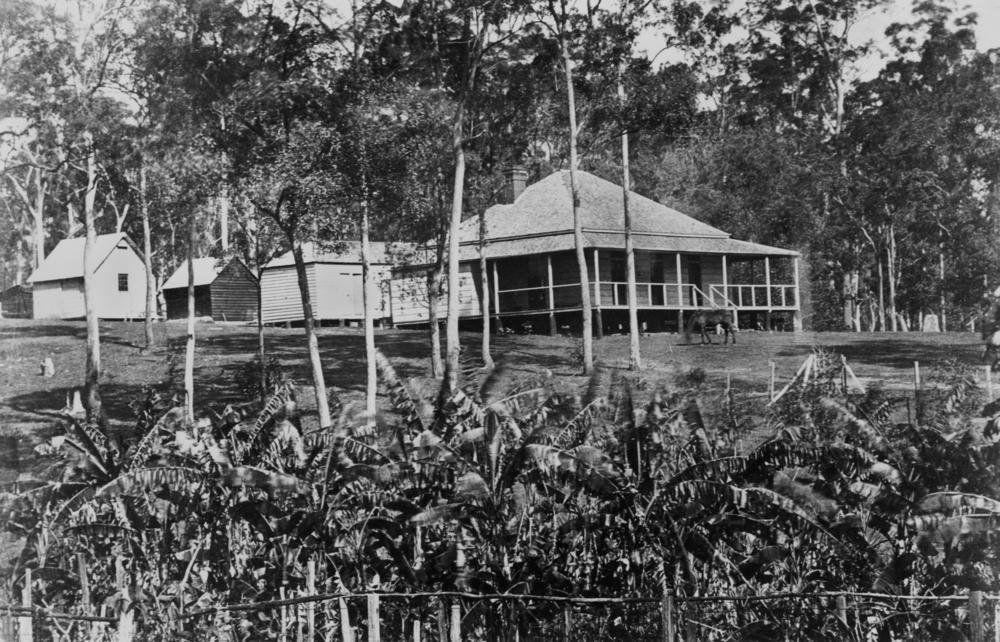 Rainworth, residence of Sir Augustus Charles Gregory, Bardon, ca. 1885 Rainworth and outbuildings as seen through the banana palms in front of the property.